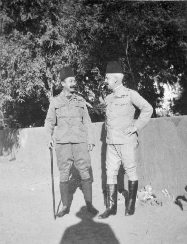 General Kitchener and the Anglo-egyptian Nile Campaign, 1898 Rudolf Slatin (left, also known as Slatin Pasha) and Colonel Sir Francis Wingate, Director of Military Intelligence, photographed some time after the former's escape from the Mahdi. Slatin, who had returned to the Sudan at General Gordon's invitation in 1879, was Governor of Darfur in Sudan until his capture by the Mahdi in December 1883. He escaped from imprisonment at Omdurman in February 1895, largely through Wingate's efforts, and subsequently served as Wingate's Assistant Director of Intelligence. Colonel Wingate succeeded Kitchener as Sirdar of the Egyptian Army and Governor General of Sudan. He was responsible for overseeing the reconstruction of the country after the campaign.